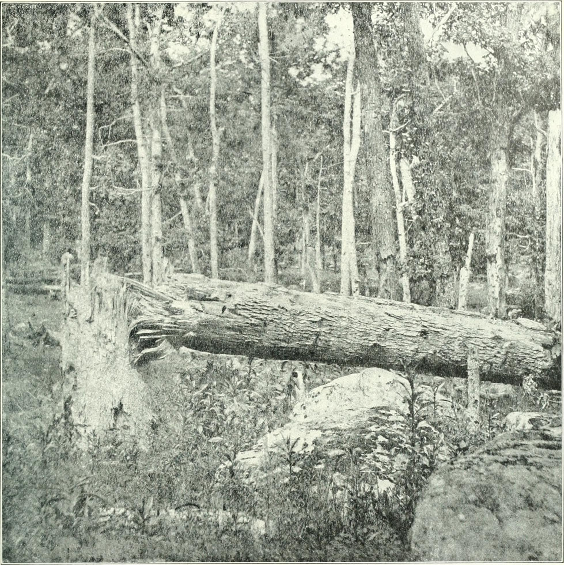 Title: The photographic history of the Civil War : thousands of scenes photographed 1861-65, with text by many special authorities Year: 1911 (1910s) Authors: Miller, Francis Trevelyan, 1877-1959 Lanier, Robert S. (Robert Sampson), 1880- Subjects: United States -- History Civil War, 1861-1865 Pictorial works United States -- History Civil War, 1861-1865 Publisher: New York : Review of Reviews Co. Text Appearing Before Image: ' Text Appearing After Image: C0P1 RIGHT, 1911, REVIEW OF REVIEWS CO. THE VERY TREES WERE STRIPPED AND BARE This picture of cannonaded trees on Culps Hill, and I he views herewith of Round Top and Cemetery Ridge,carry the reader across the whole battlefield. Culps Hill was the scene of a contest on the second day.Lees plan on that day was to attack the right and left flanks of the Union army at the same time. Long-street s attack on the left, at Little Round Top, approached a victory. Swells attack on the right at (nipsHill, although made later than intended, came near complete success. His cannonading, the effects ofwhich appear in the picture, was soon silenced, but the infantry forces thai assaulted the positions on theextreme right found them nearly defenseless because the troops had been sent to ivenloree the left. Aboutsunsel General Edward Johnson led this attack, which was repulsed by the thin but well fortified line undercommand of General George S. Greene. Aboul nine oclock Johnson walked into the undefe